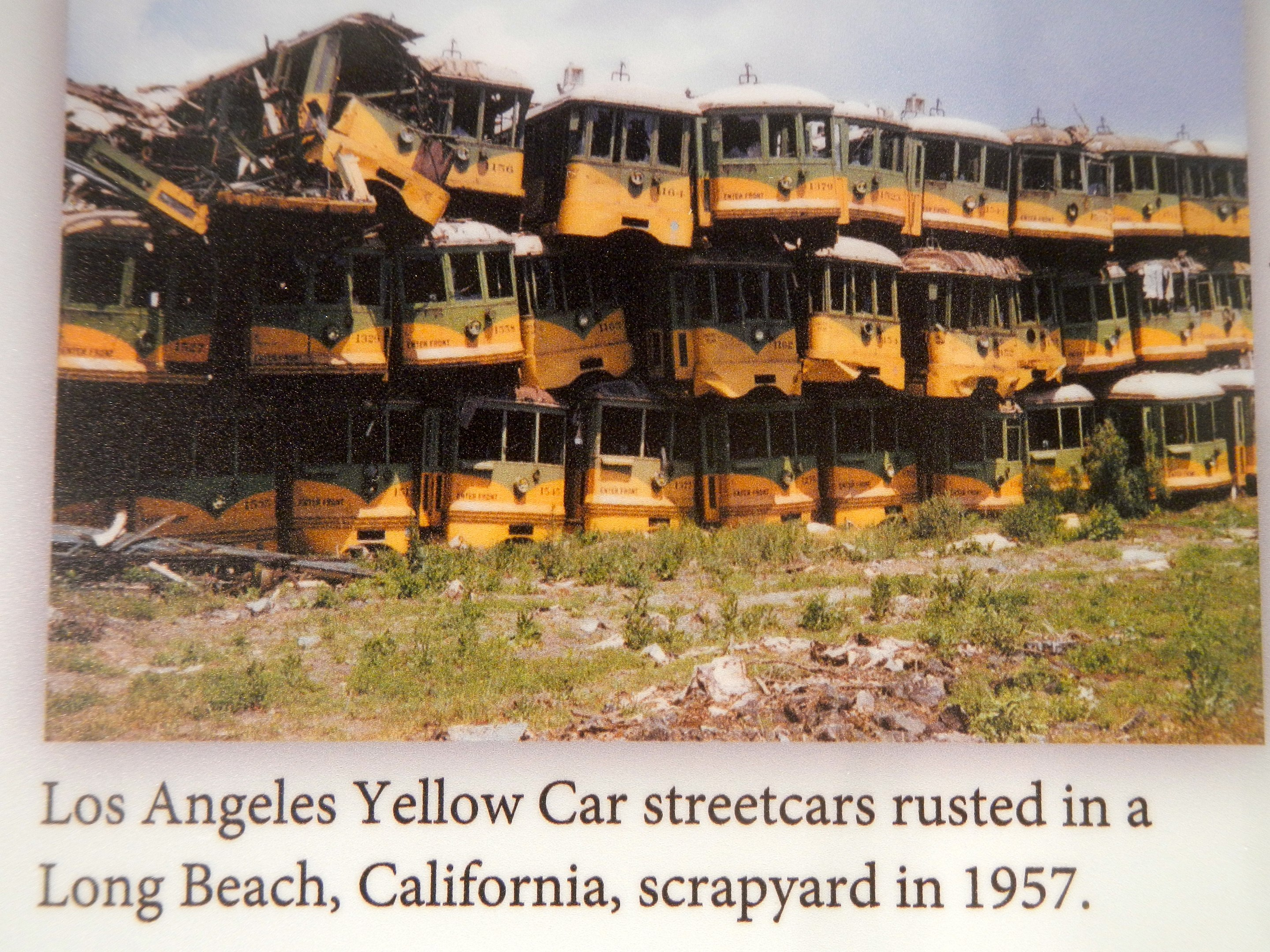 Los Angeles Yellow Car streetcars rusted in a Long Beach CA scrapyard in 1957.